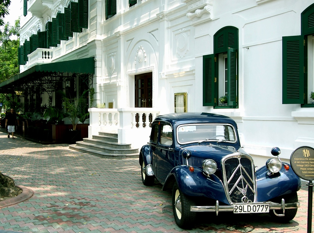 Hotel Metropole Hanoi, Vietnam.